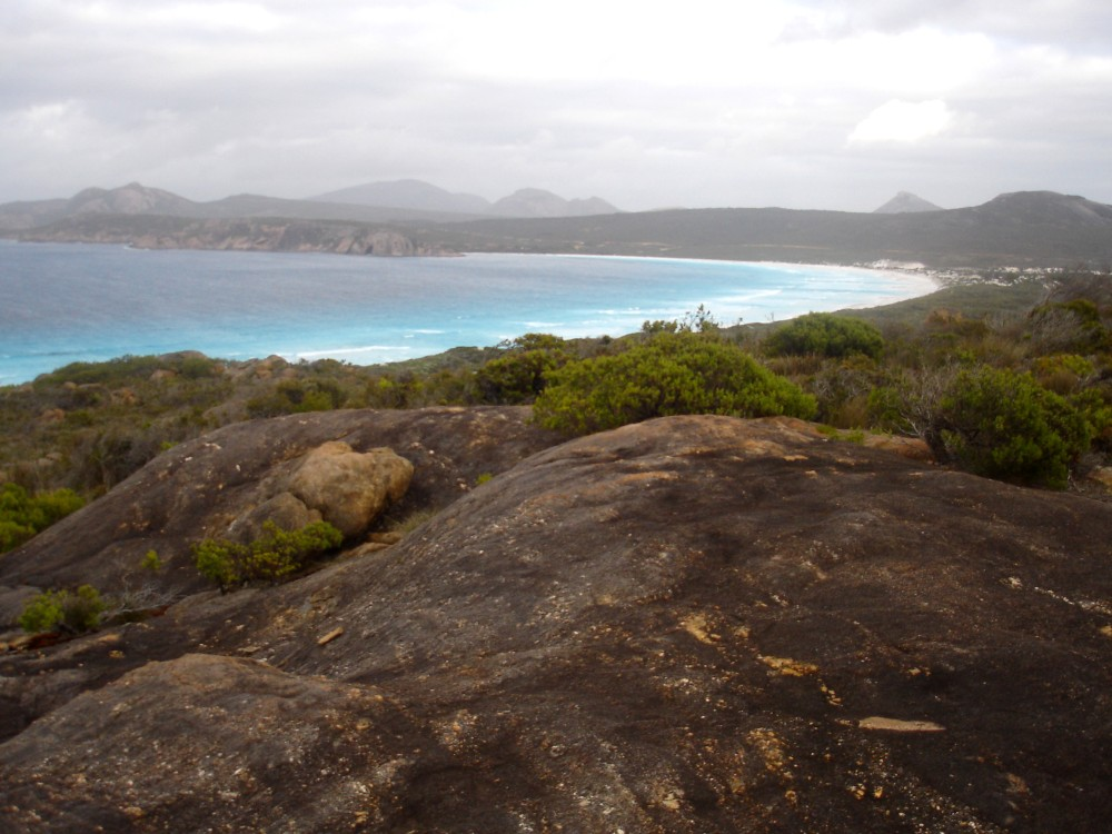 Lucky Bay, Cape Le Grand National Park. Photo taken by DynaBlast.